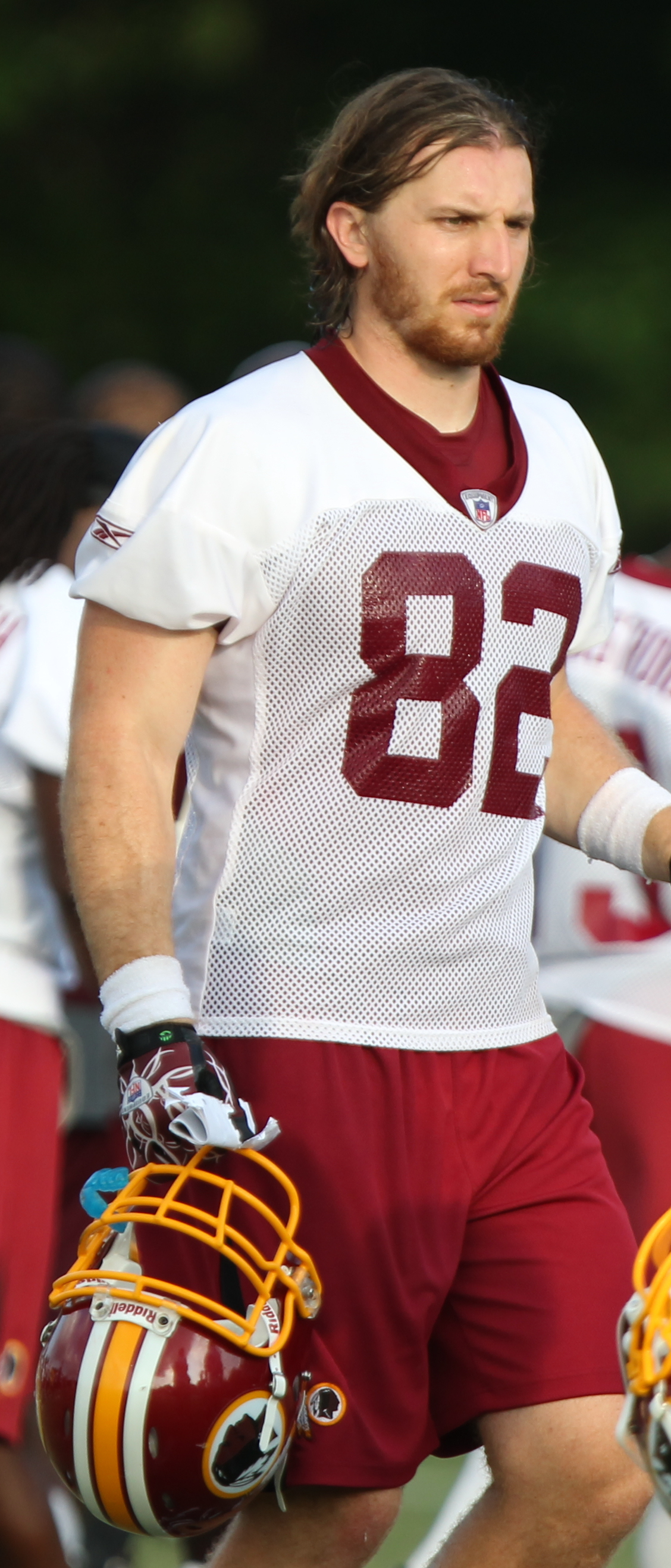 Washington Redskins Training Camp August 4, 2011